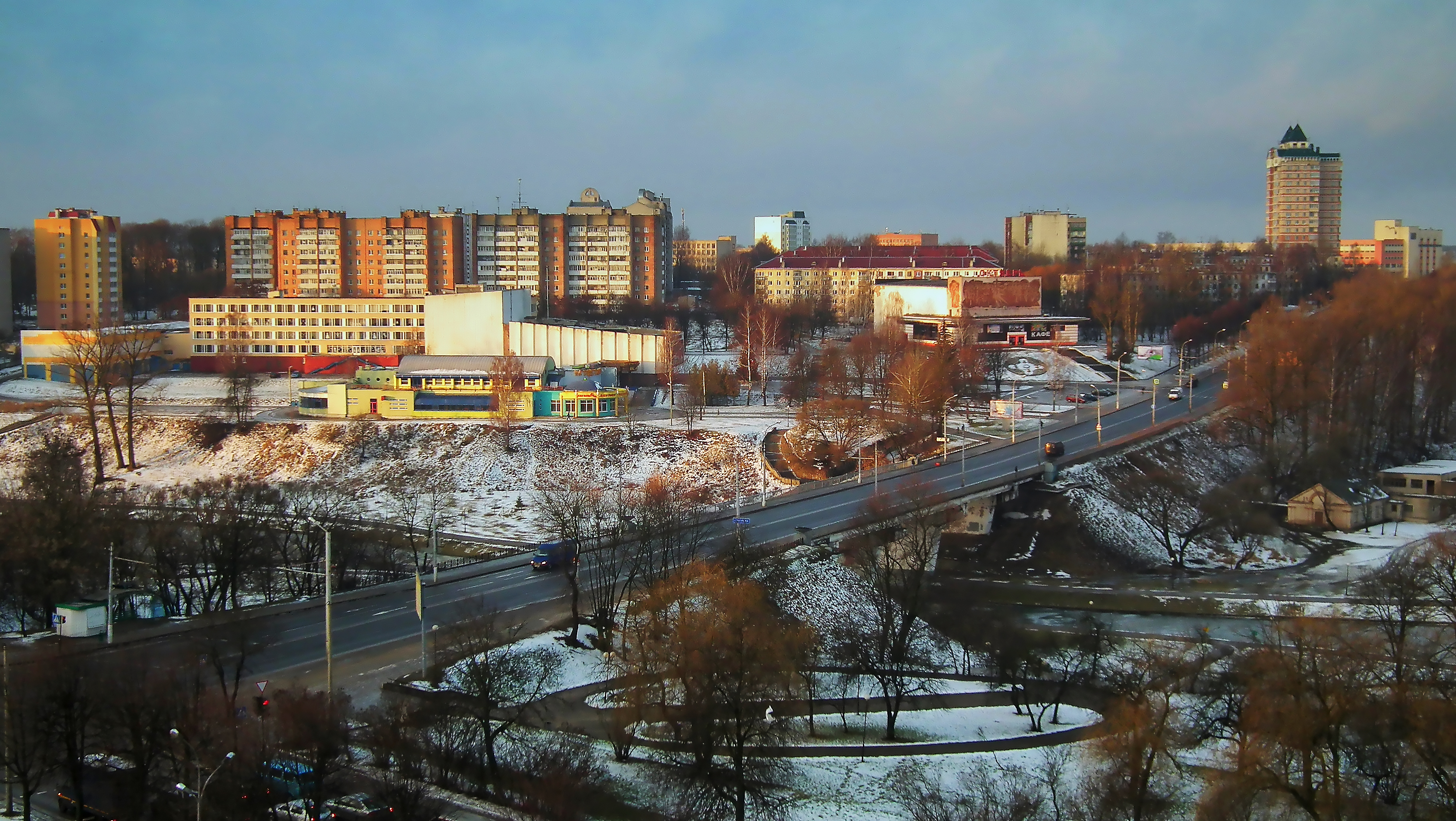 Lieninski District, Mogilev, Belarus.